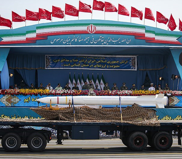 Bavar-373 an Iranian long-range mobile air defense system